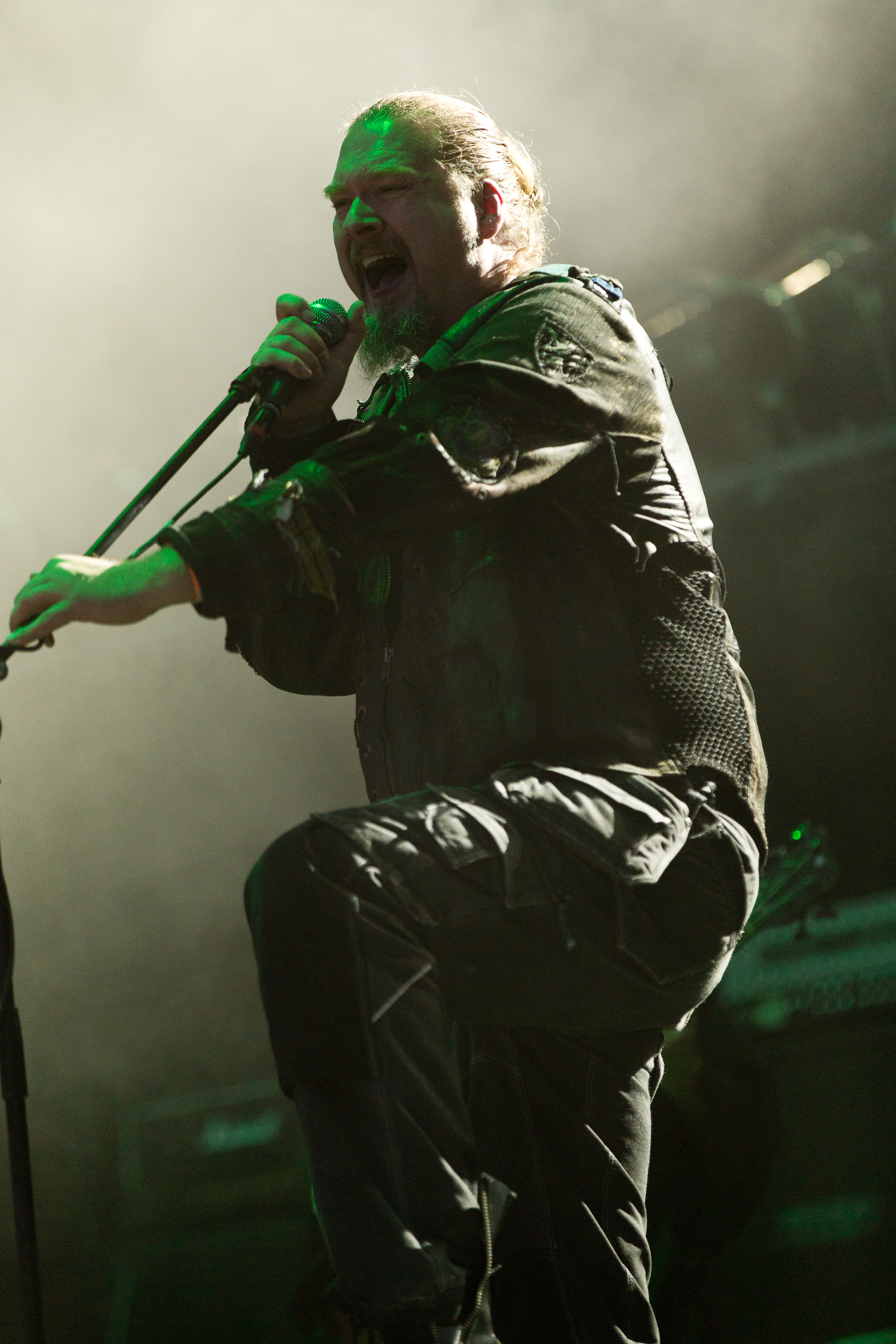 The Norwegian black metal band Arcturus at the Party.San Metal Open Air 2016 in Obermehler-Schlotheim/Germany